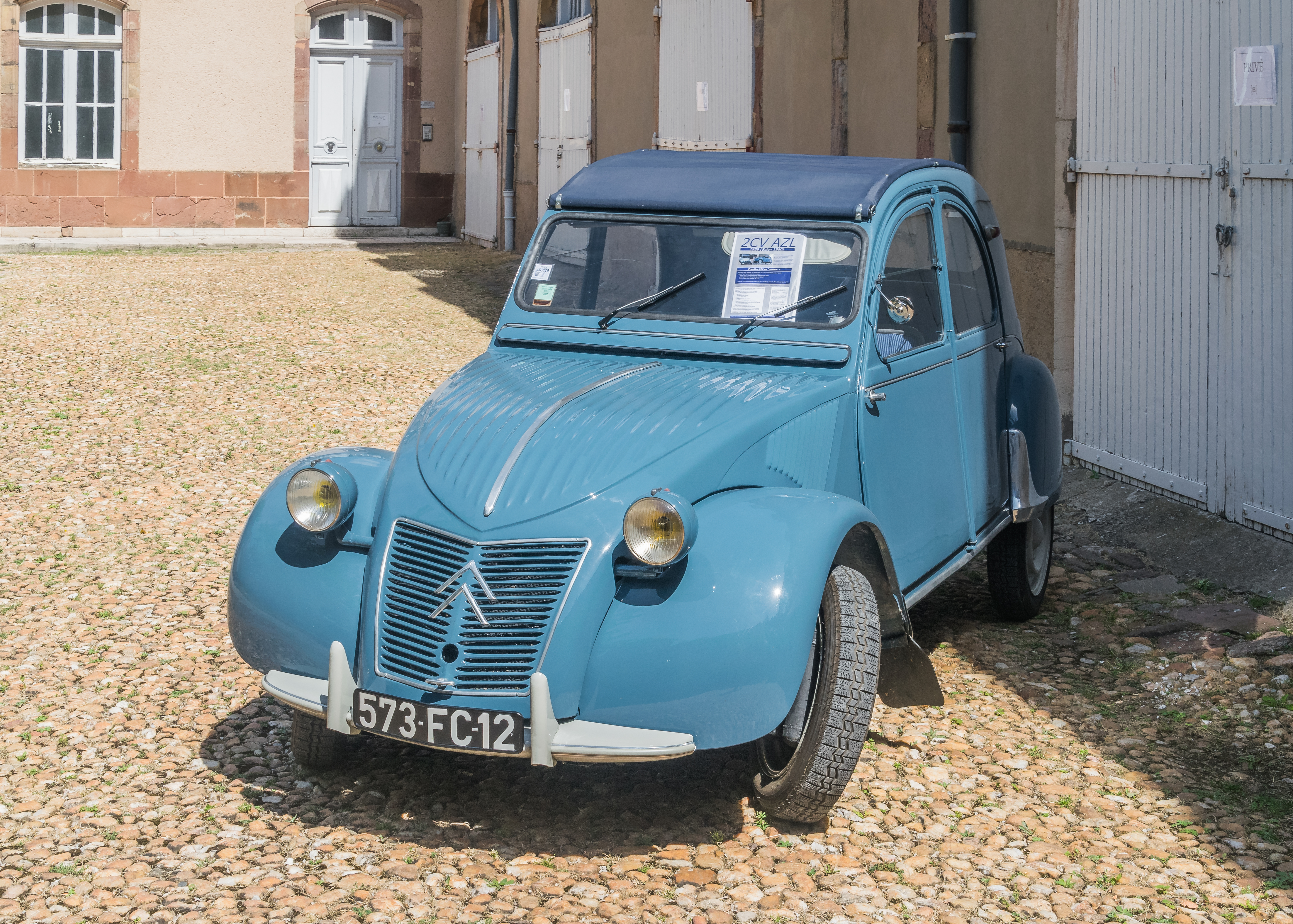 Citroën 2CV AZ, produced in 1959, Rodez, Aveyron, France